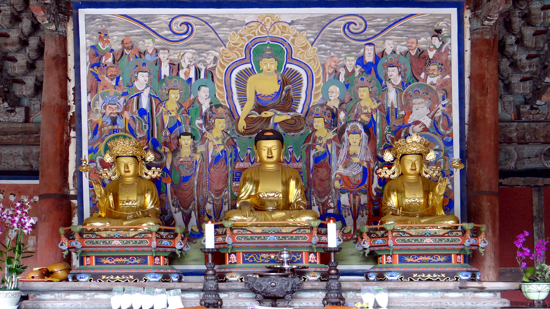 Naesosa Daeungjeon, the main worship hall built in 633 totally without nails is Treasure #291 - Naesosa in Buan County, North Jeolla Province, South Korea was built in 633 CE and was rebuilt in 1633. Originally called Soraesa, around the Imjin War the temple changed its name to Naesosa.